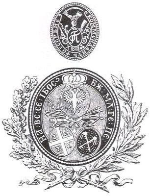 Small and Great Seal of Grand Vožd Black George of Serbia.